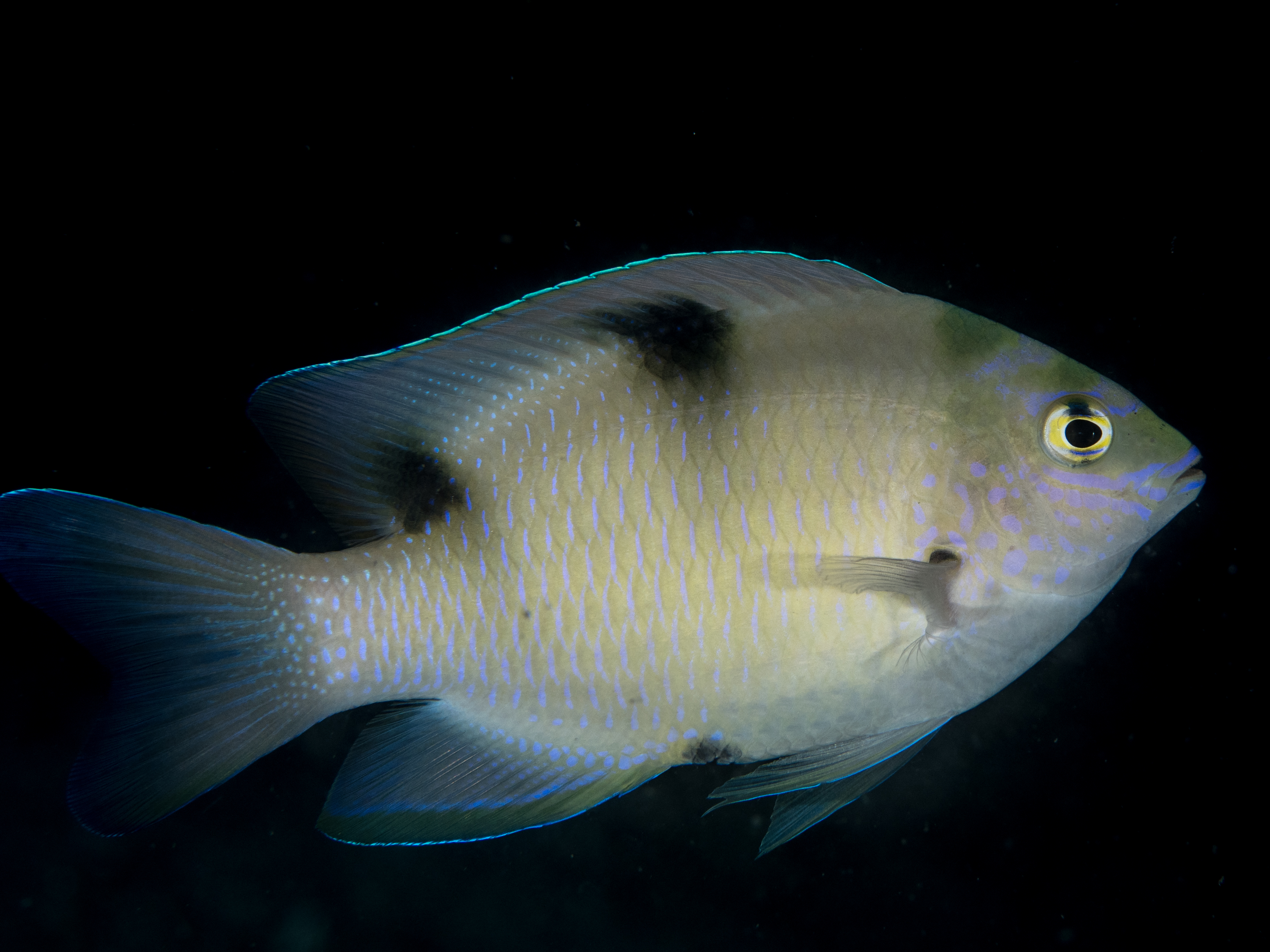 Lembeh, Indonesia - White damsel juvenile (Dischistodus perspicillatus)